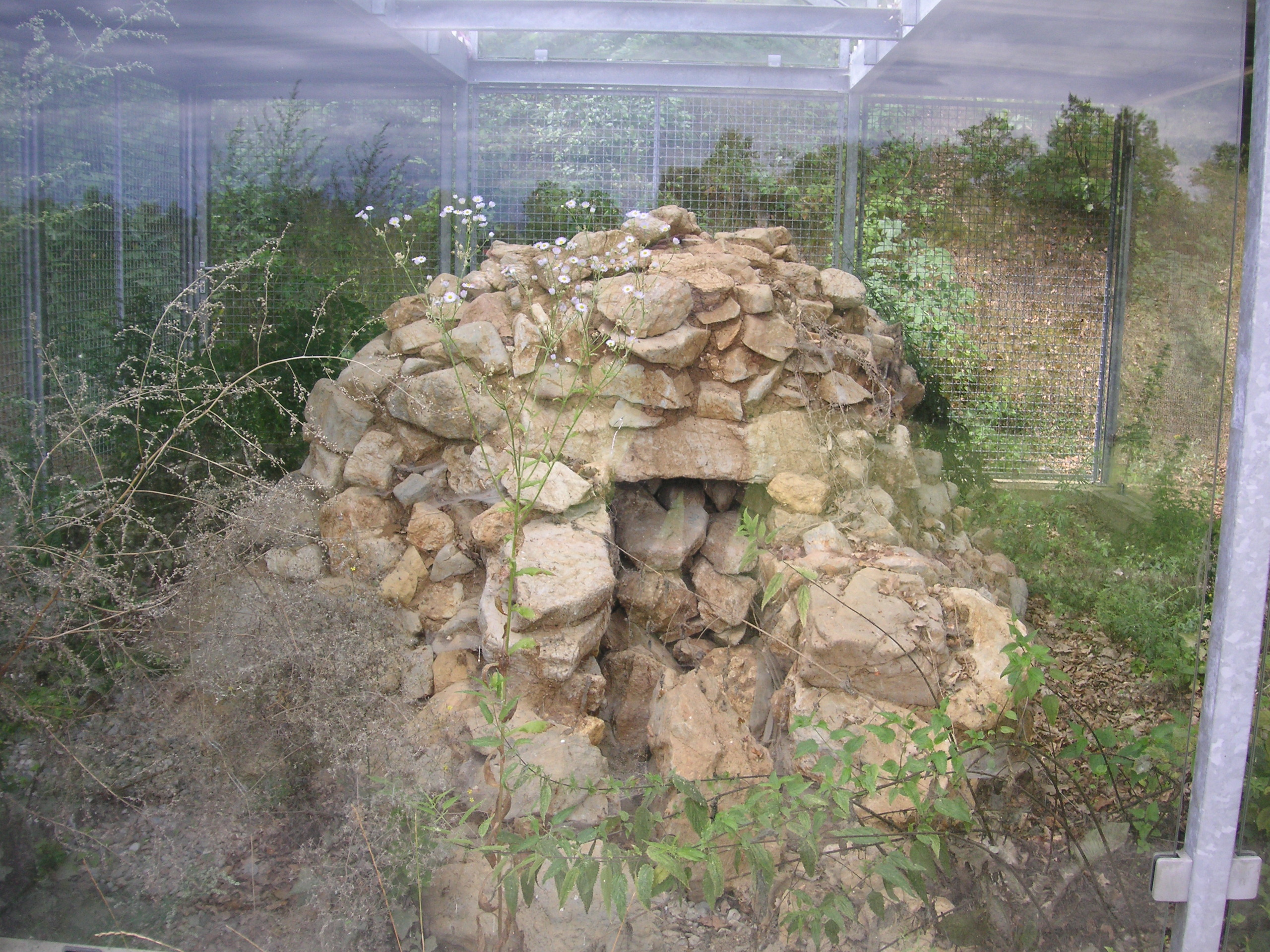 A hilltomb in Graz-Wetzelsdorf, Styria, Austria